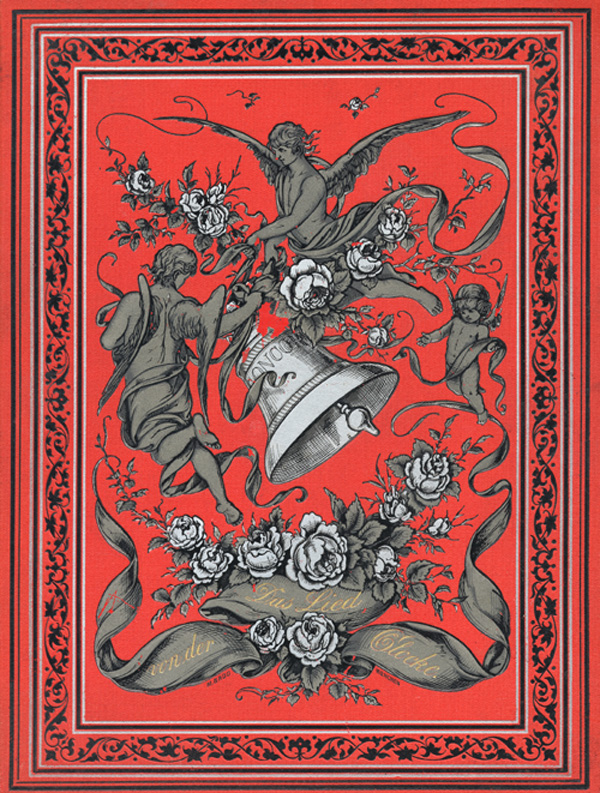 illustration of Friedrich Schillers German poem Das Lied von der Glocke by Alexander von Liezen-Mayer